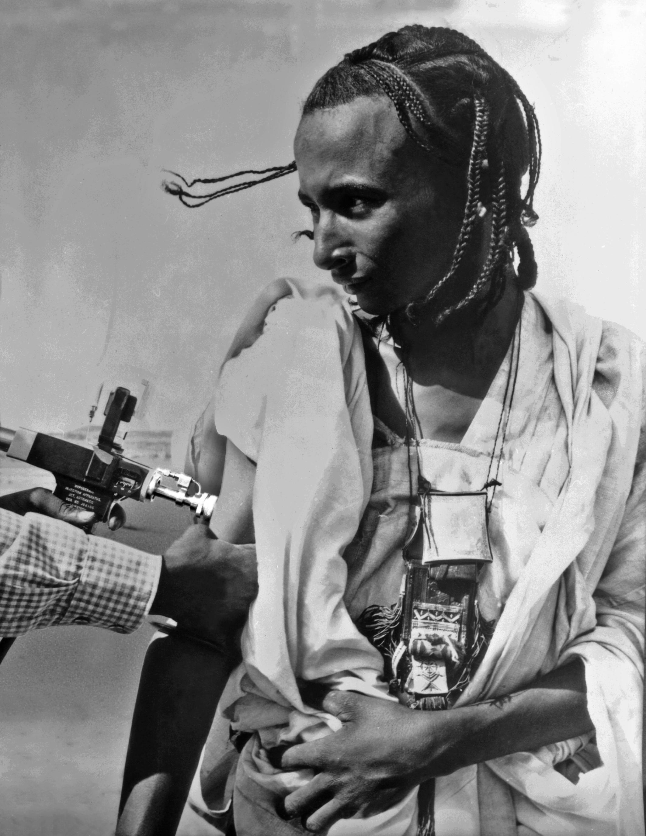 Photograph made during Smallpox Eradication and Measles Control Program in Niger, W. Africa, February, 1969. In 1979, the World Health Organization (WHO) declared the global eradication of smallpox, and recommended that all countries cease vaccination.